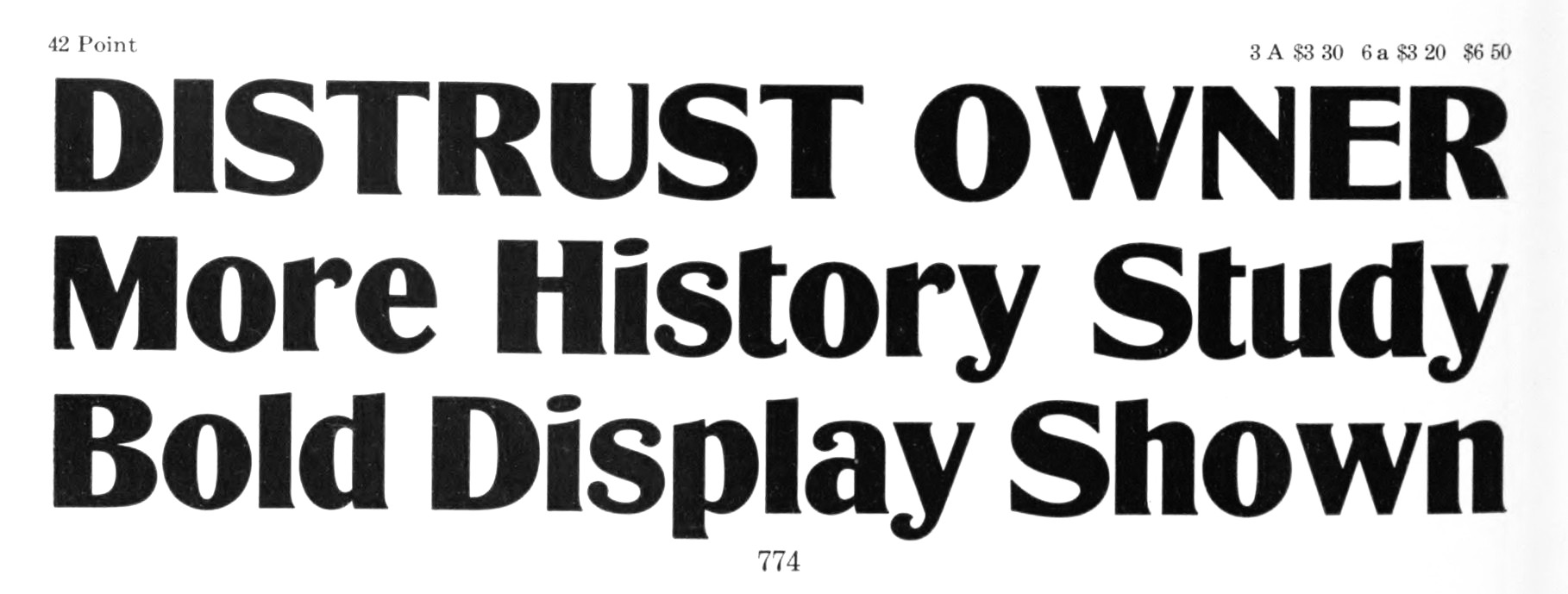 A sample of Globe Gothic Bold, an early design by Frederic Goudy